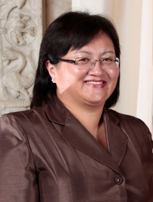 President Barack Obama and First Lady Michelle Obama pose for a photo during a reception at the Metropolitan Museum in New York with, H.E. Tsakhiagiin Elbegdorj President of Mongolia and Mrs. Khjidsurengiin Bolormaa, Wednesday, Sept. 23, 2009. (Official White House Photo by Lawrence Jackson)